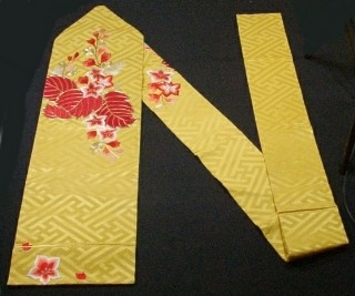 This yellow silk nagoya obi is from pre WWII, and has bold paulownia motif, which is fully EMBROIDERED!